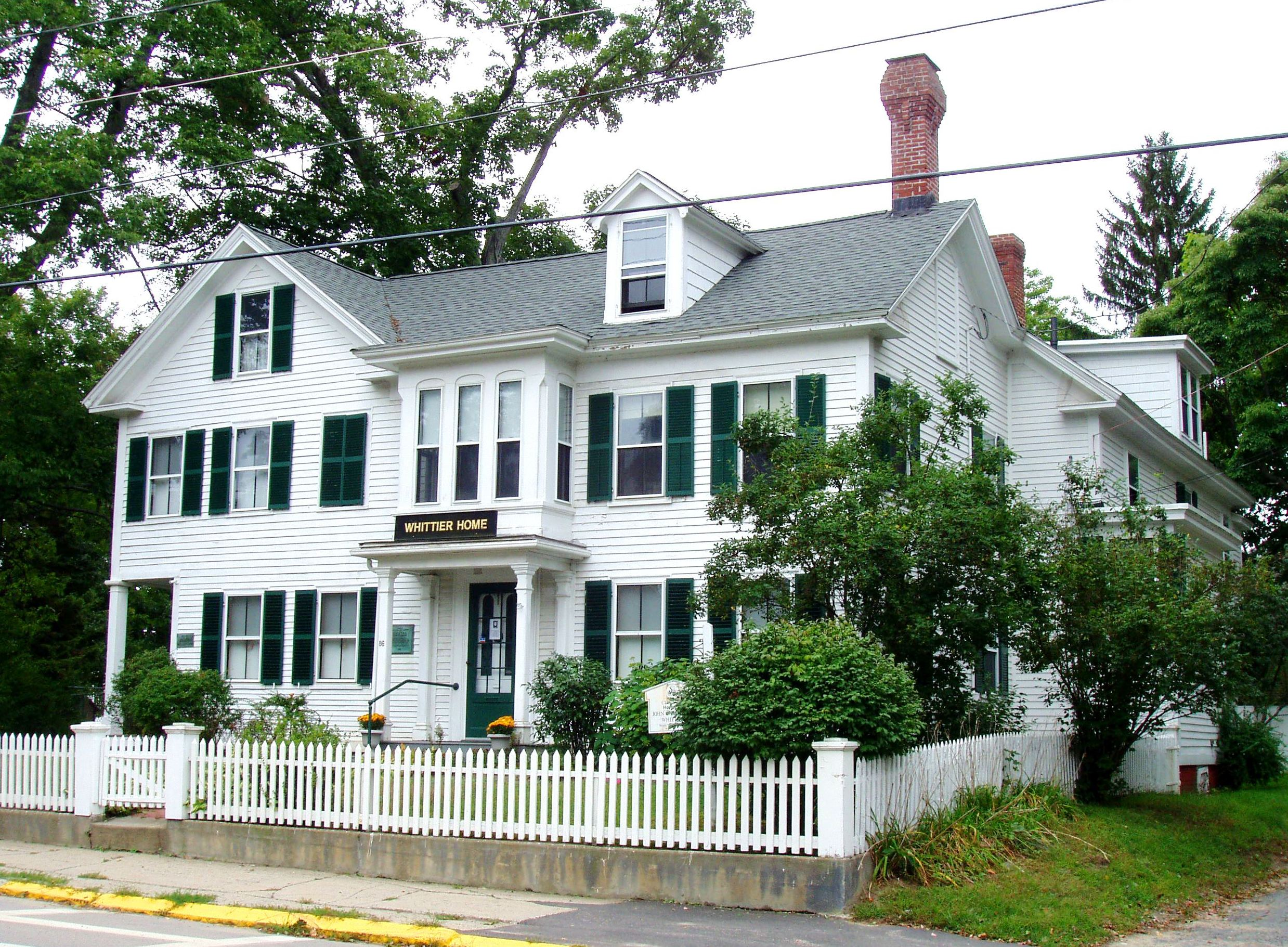 John Greenleaf Whittier Home - Amesbury, Massachusetts. Photograph taken by me, September 2005.